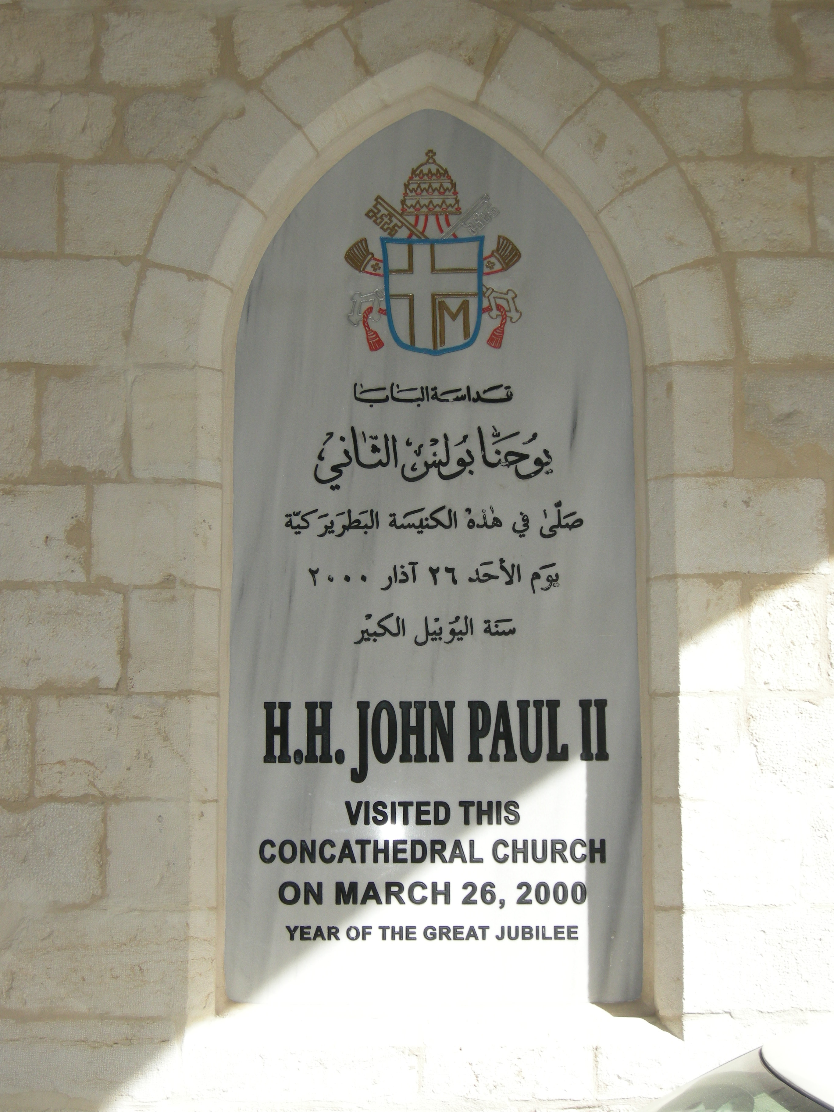 Visit in the Concathedral of the Latin Patriarch of Jerusalem, Plaque commemorating the visit of Pope John Paul II to the Concathedral on 26 March 2000.